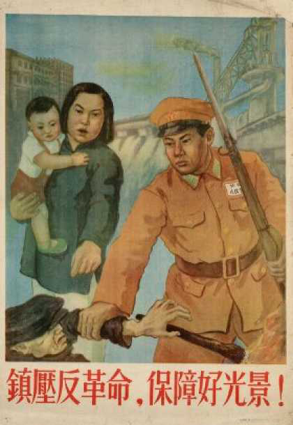 Propaganda poster showing the arrest of counterrevolutionary.